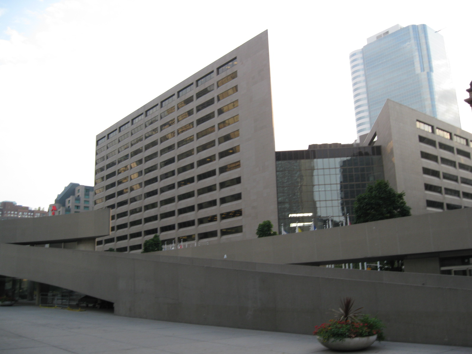 Bell Trinity Square building, Toronto, Ontario, Canada, with the pedestrian ramps of City Hall in the foreground.